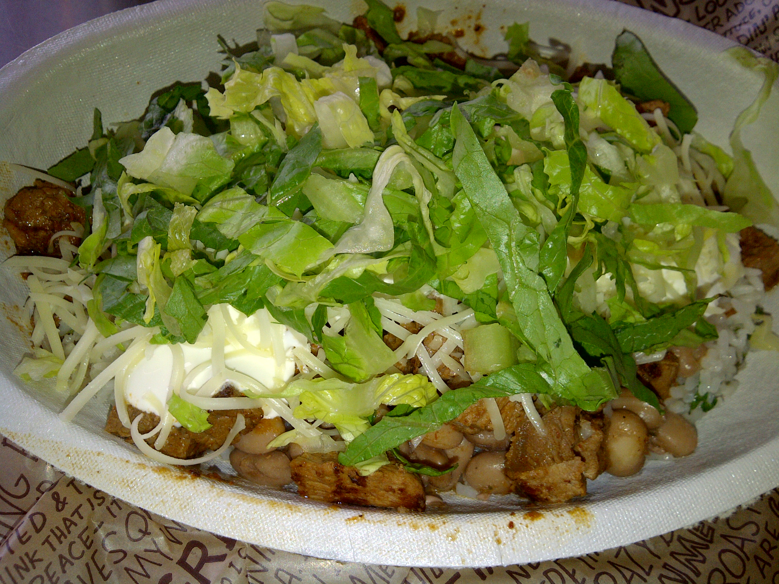 Burrito Bowl - Chipotle